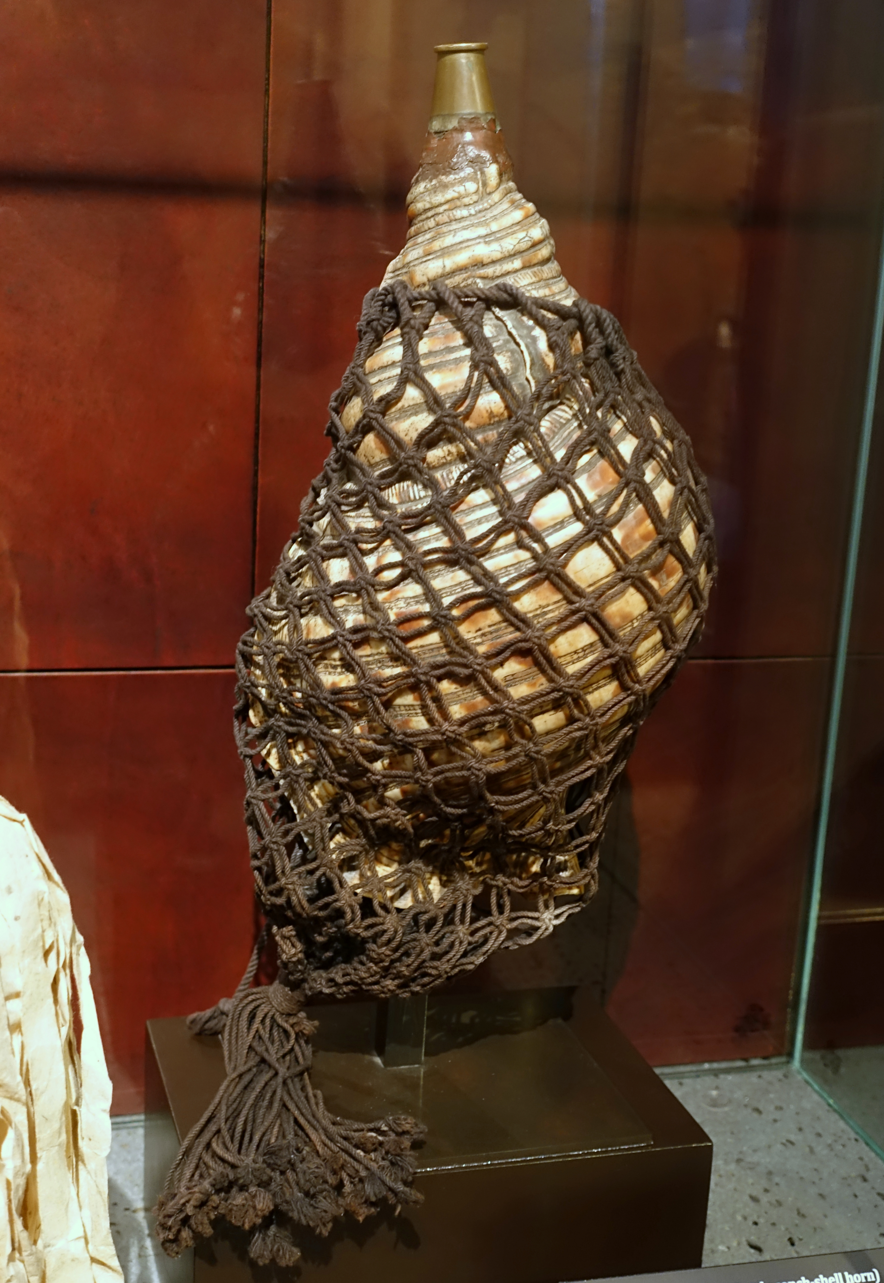 Exhibit in the Ann and Gabriel Barbier-Mueller Museum - Dallas, Texas, USA.